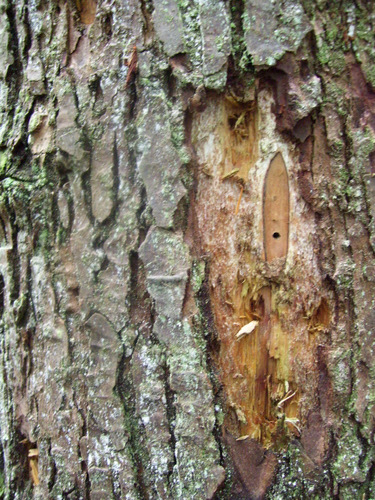 Hole by beetle, other damage by pileated woodpecker. Jim said the pileated woodpecker plays a big role in the life of a forest. In its quest to get at the larvae in the trees, it helps to break the trees down so that other species can also have a go. Here's a PNW Research Station paper on them as "Ecosystem Engineers." A quote from it: "The pileated woodpecker may be a keystone habitat modifier in forested ecosystems of the Pacific Northwest. Their old nest and roost cavities provide unique habitat for secondary cavity-users, and their excavations provide foraging opportunities for other species, accelerate decay processes and nutrient cycling, and may facilitate the spread of heart-rot fungi and mediate insect outbreaks."